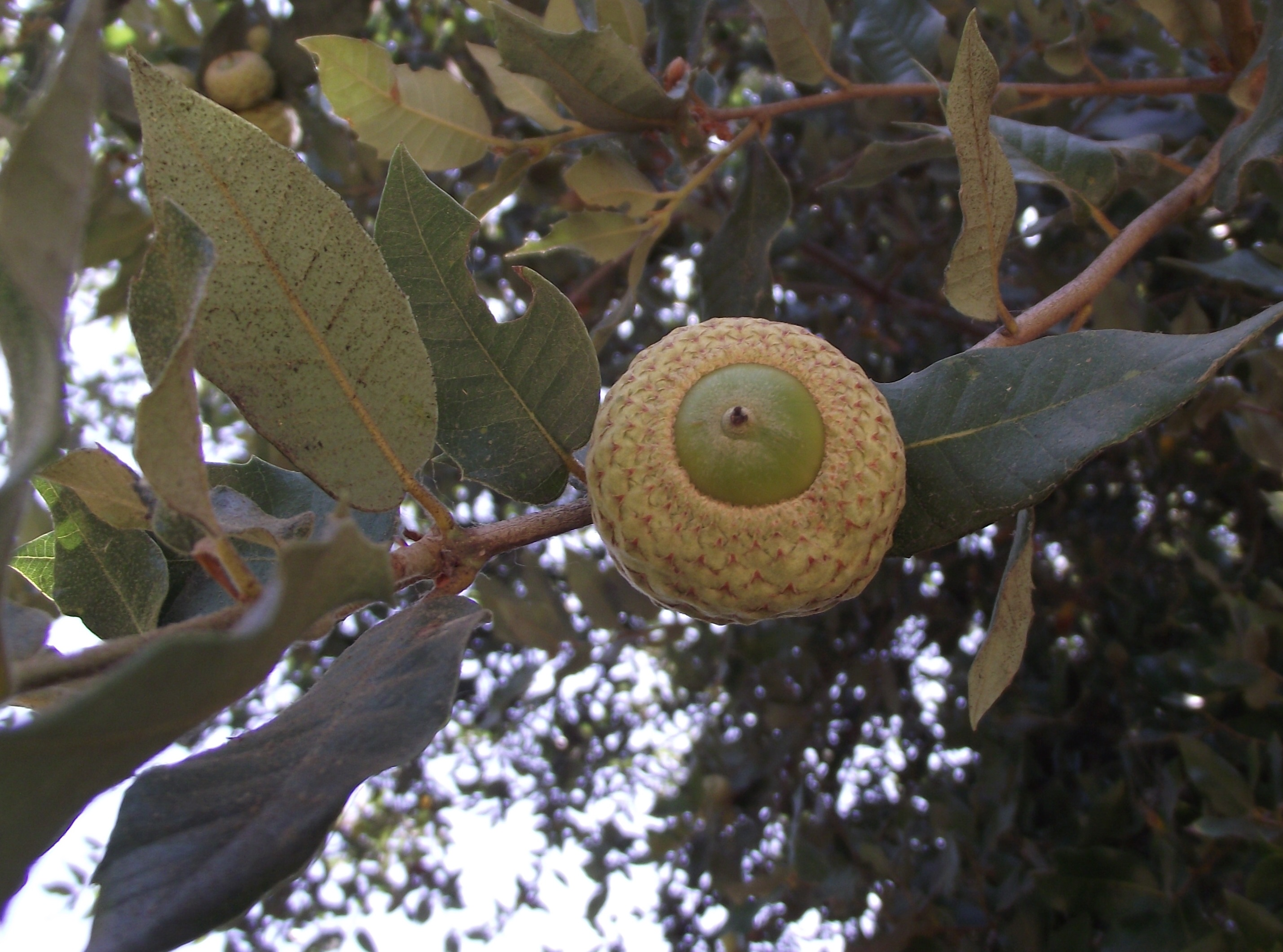 Quercus tomentella — Island oak, acorn and leaves close up. In the native plant gardens at the San Diego Zoo Safari Park, Escondido, California. Native and endemic to the Channel Islands of California.